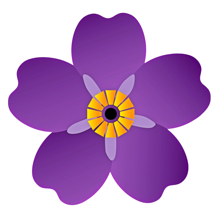 Armenian_Genocide Logo